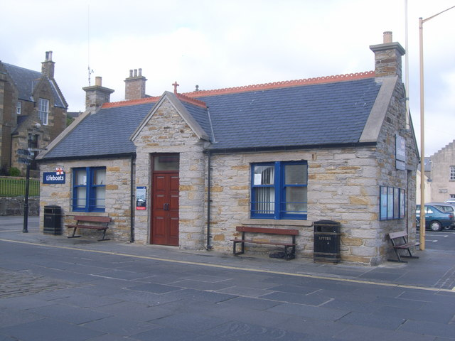 Stromness Lifeboat station